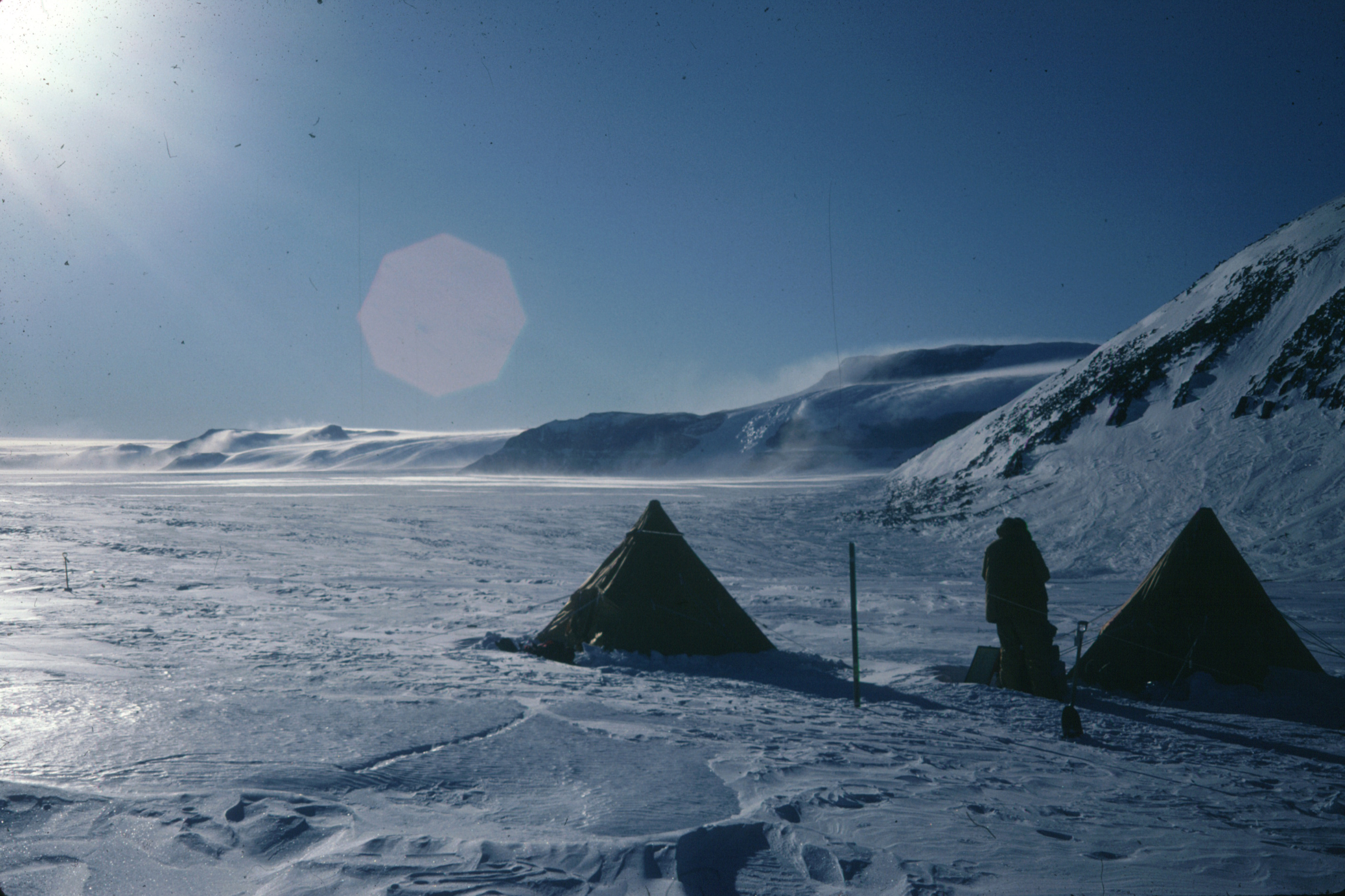 East side of Portal Mountain, edge of Antarctic polar plateau (which is in the background of the photo).